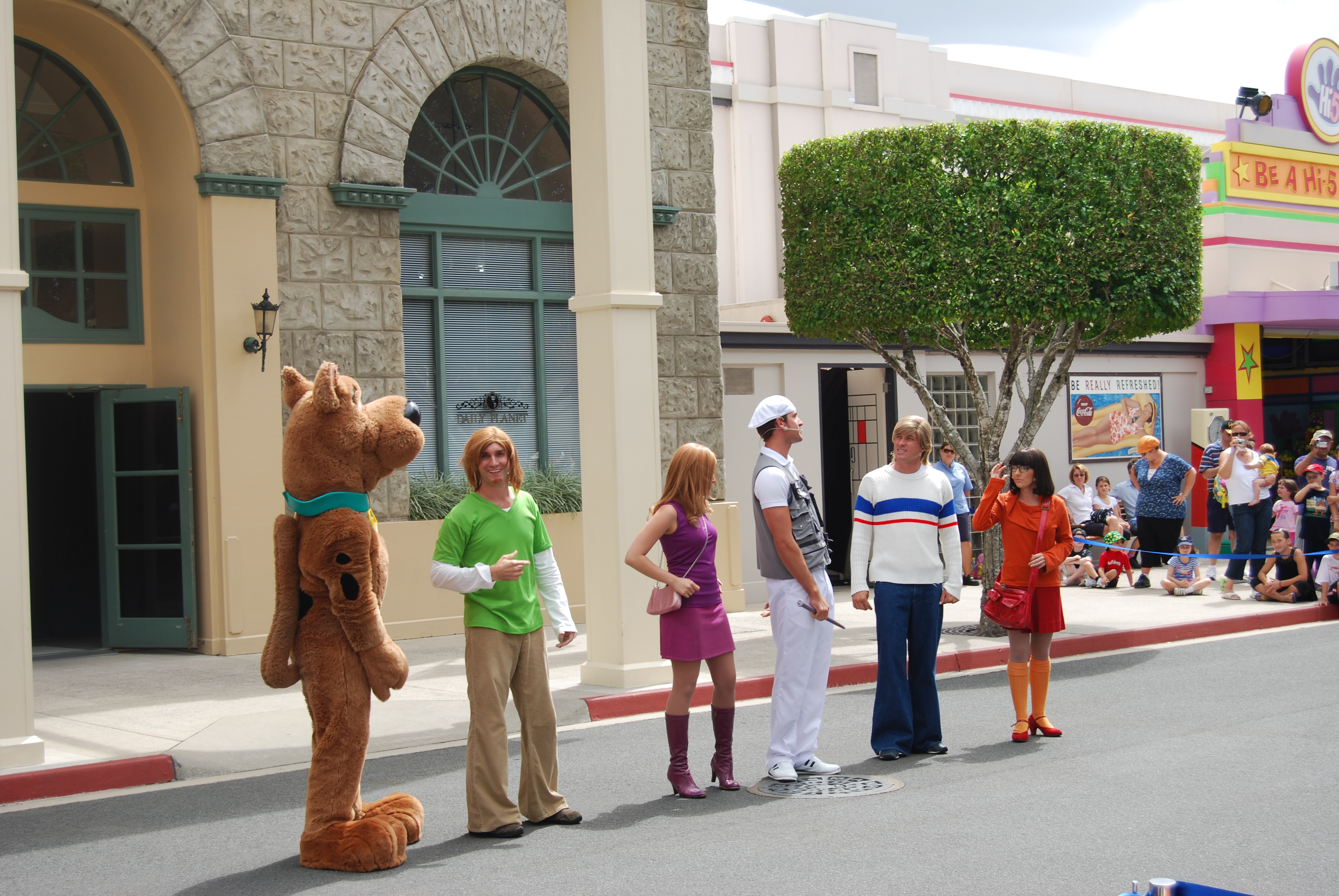 Crap acting, corny script. But the kids like it, so I guess it gets a pass.